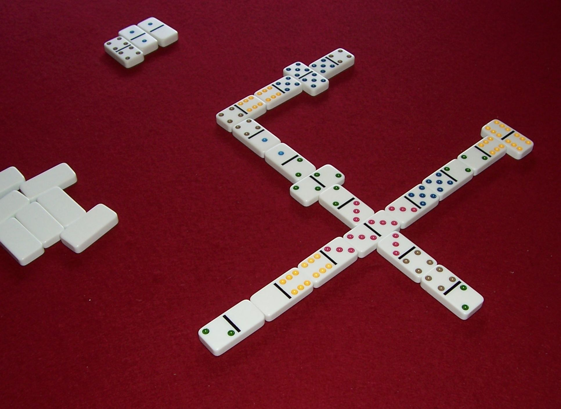 A typical Muggins board using double-six dominoes